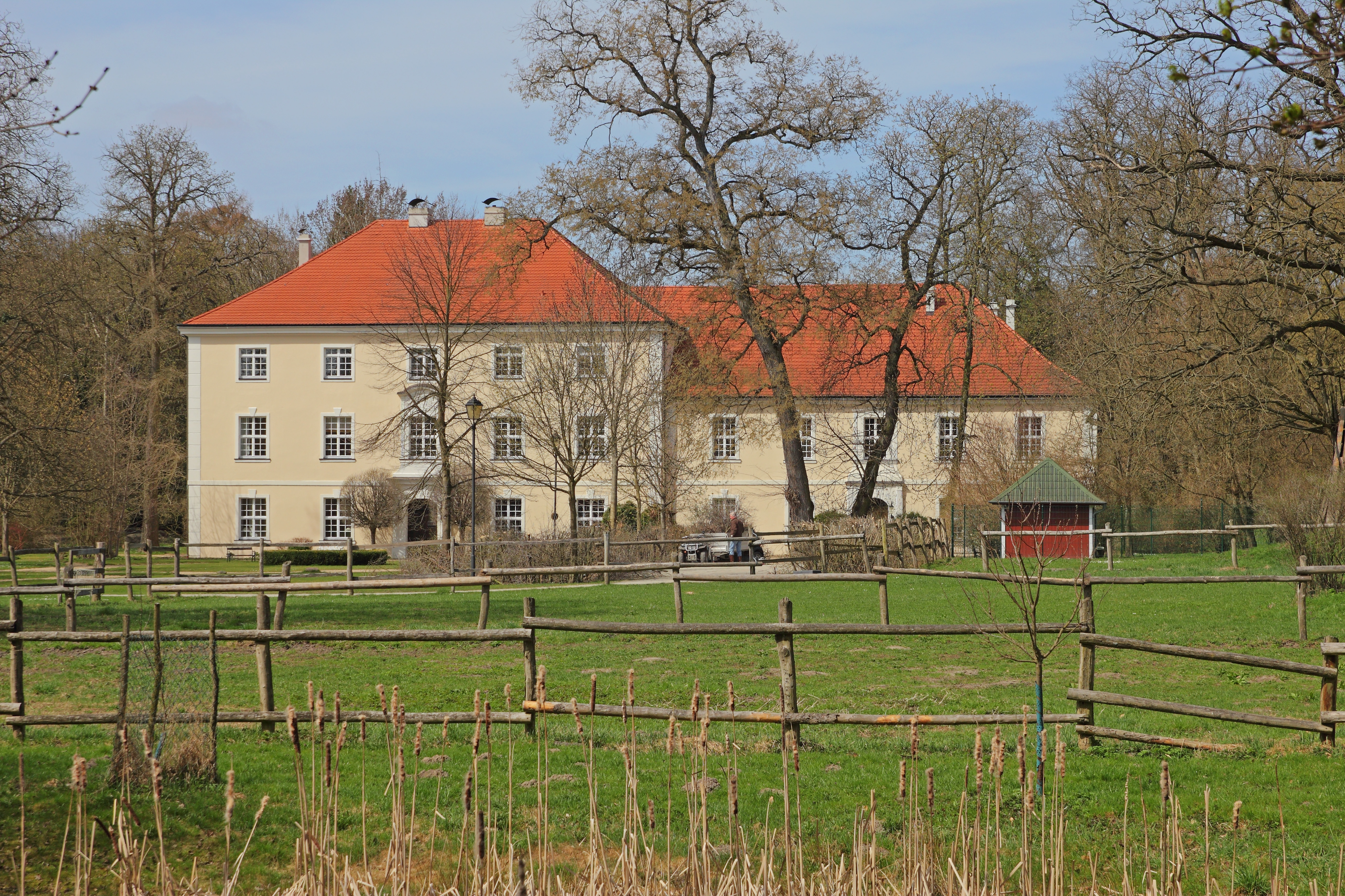 Castle and landscape garden in Madlitz-Wilmersdorf, Brandenburg, Germany